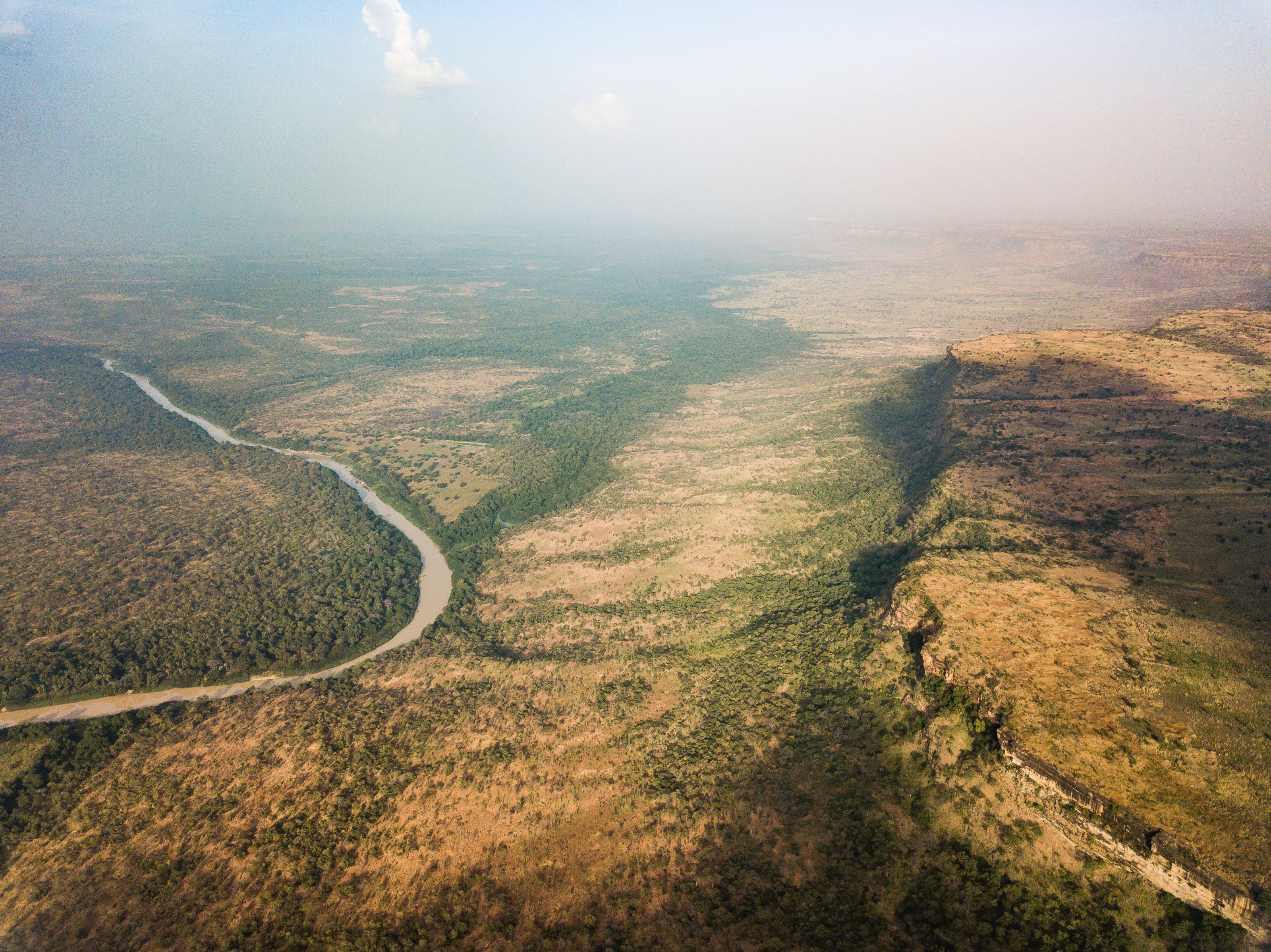 Aerial view of the White Volta River and Gambaga Escarpment which form the northernmost border of the North East Region of Ghana.